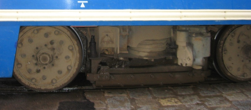 Rail-brake in tramway